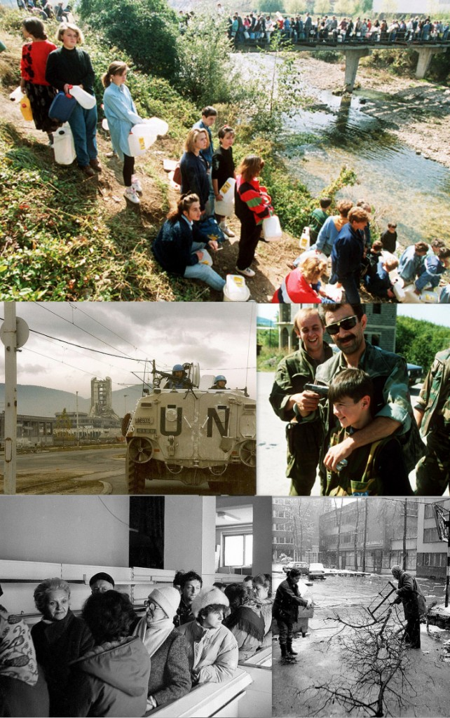 Collage of the 1992-1995 siege of Sarajevo (clockwise from the top): Residents of Sarajevo stand in line to get water. A Serb commander puts a gun to the head of his son as he and his friends joke around while waiting for a prisoner exchange near Sarajevo, summer of 1992. winter of 1992-1993. Cutting branches from Sarajevo's trees -- often at risk of being sniped -- as fuel for stoves to heat water and provide occasional meagre warmth. Winter brought freezing indoor temperatures, often even colder than outside. Residents of the Baščaršija (Sarajevo old town) district wait to receive rations from a UNHCR humanitarian aid delivery, their first in 40 days. A typical street scene.